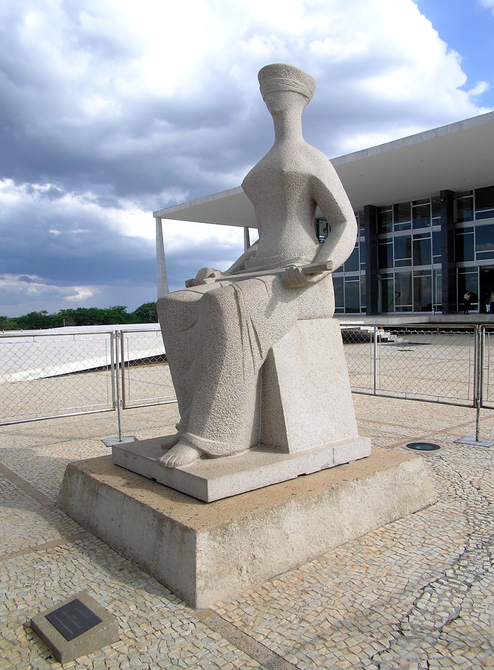 A Justiça by Alfredo Ceschiatti. Seated, blindfolded woman with a sword. This signifies fairness and the power to achieve it. This statue is located in front of the headquarters of the Supreme Court of Brazil.